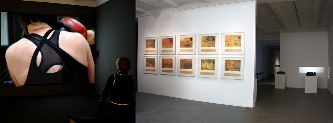 In her two-part piece, Marisa Maza continues her long-term analysis of (media) representations of the body, sex and gender. The artist draws a parallel between the role of women scientists in a (pre)colonial context and today where the role of women as researchers and “discoverers” is nearly as socially marginalized as it was previously. In the video, Maza sets up a contrast between statements made by Lady Florence Baker (1845 – 1916) and Marloes Janson (1973 –) whose lives have taken each of them from Western Europe to East and West Africa. In addition, Maza presents a series of screenprints that refer to a different biography. In the story of Sayyida Salme, Princess of Zanzibar and Oman, aka Emily Ruete (1844 – 1924)1, the perspective is inverted with the focus turning to pre-colonial and colonial Germany and a woman’s life between different cultures, between exoticism and emancipation.